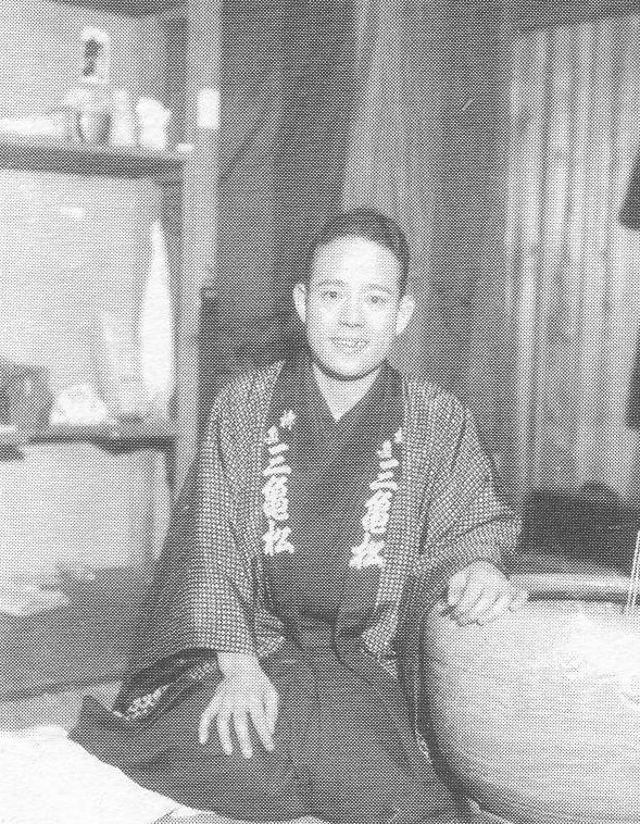 Mikimatsu Yanagiya (Rakugoka).